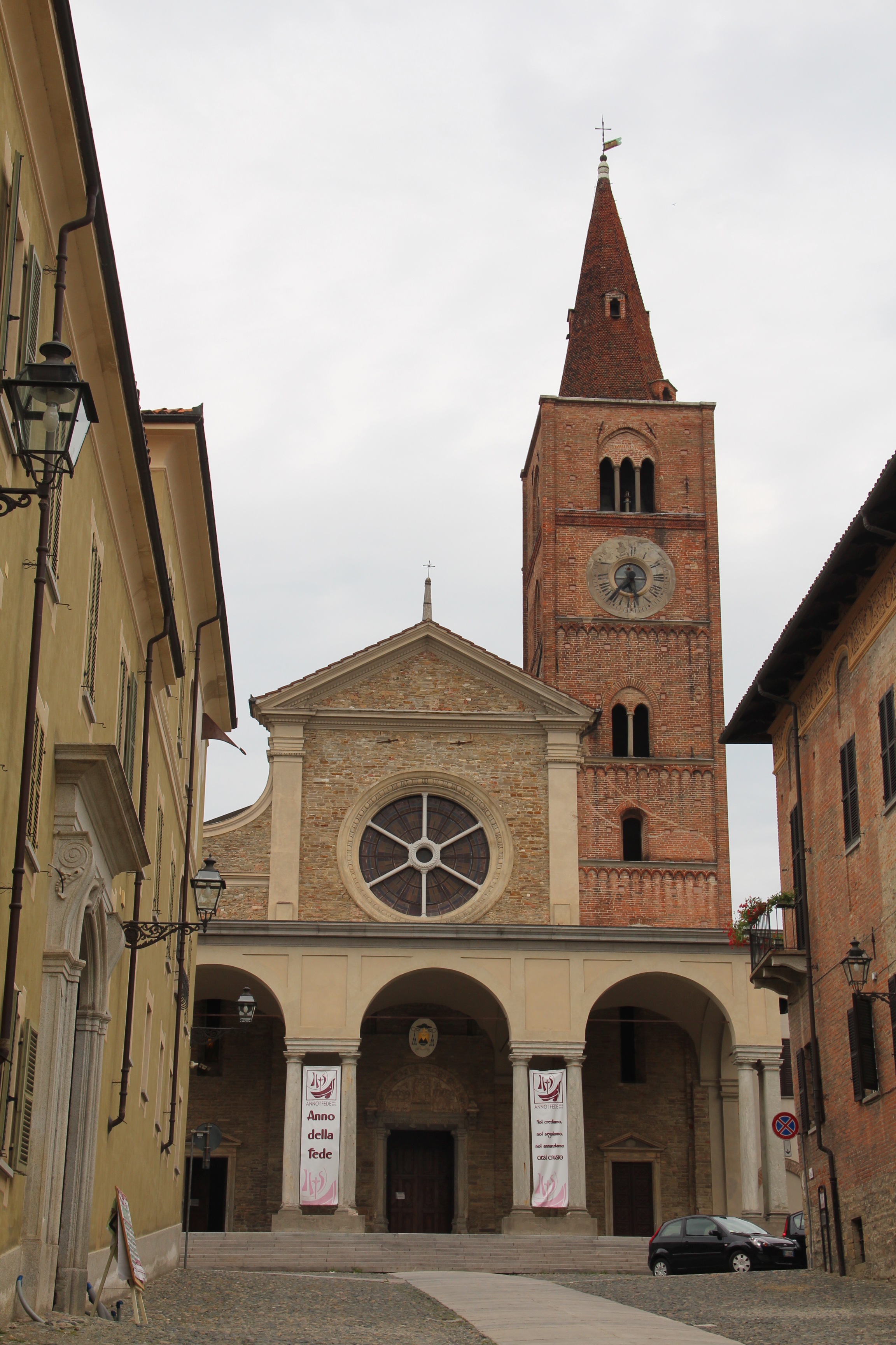 Acqui Terme - The Cathedral